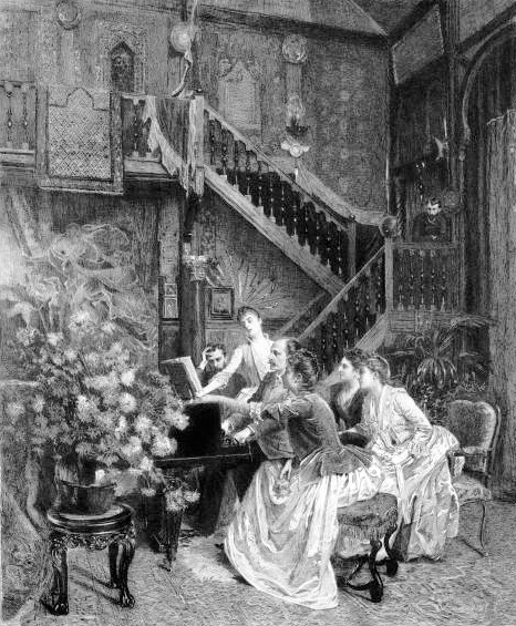 "Gathering around a score" by Charles Baude (1853-1935) after Albert Aublet (1851-1938). The print shows Jules Massenet rehearsing Manon with American soprano Sibyl Sanderson in Pierre Loti's drawing room (Pierre Loti seems to be shown either by the piano or on the stairs). The original painting was shown at the 1888 Salon. Charles Baude's etching illustrated the cover of the magazine Le Théâtre in July 1889.